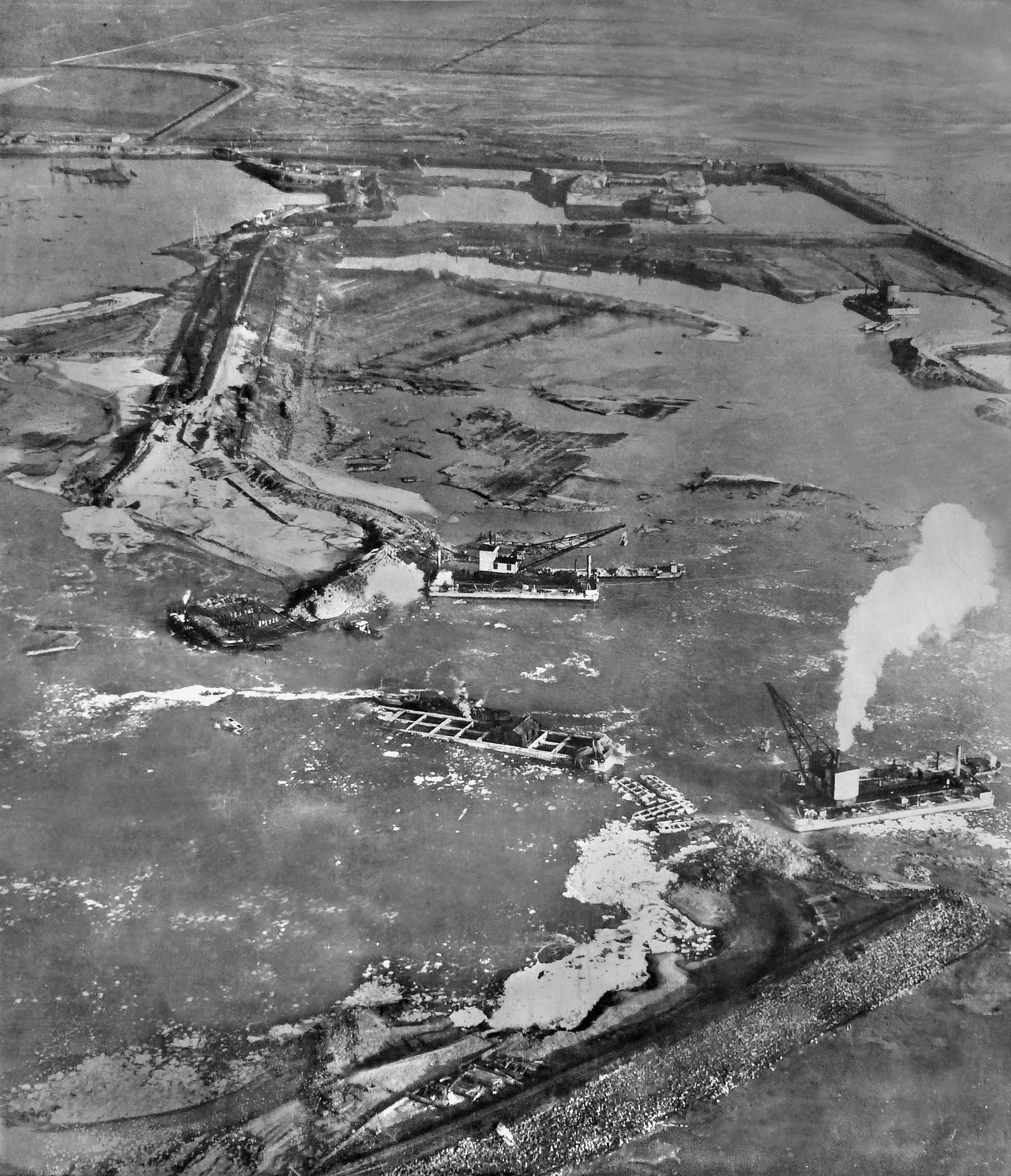 Photograph made of a poster, which for a long time decorated the offices of various employees of Delft University of Technology. It depicts the closure of the dike breach near Fort Rammekens in Zeeland, the Netherlands on 1 December 1945, with help of a Phoenix caisson.